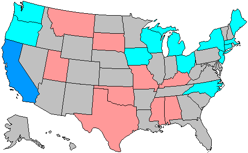 Summary of party change of U.S. house seats in the 1996 House election. Stripes indicate a tie between the gains of two or more parties. Legend: 6+ Democratic seat pickup 3-5 Democratic seat pickup 1-2 Democratic seat pickup 1-2 Republican seat pickup 3-5 Republican seat pickup 6+ Republican seat pickup Note: years ending in 2 may have inconsistent results due to redistricting.